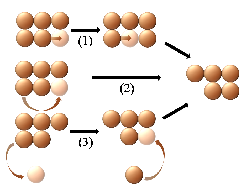 Individual methods of cluster diffusion at a surface. 1) Sequential displacement; 2) Edge diffusion; 3) Evaporation-condensation. Prepared using Microsoft Powerpoint 2007.